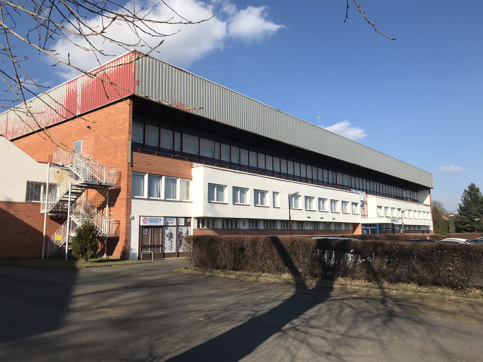 Ice stadium Slaný in 2018 (south side)